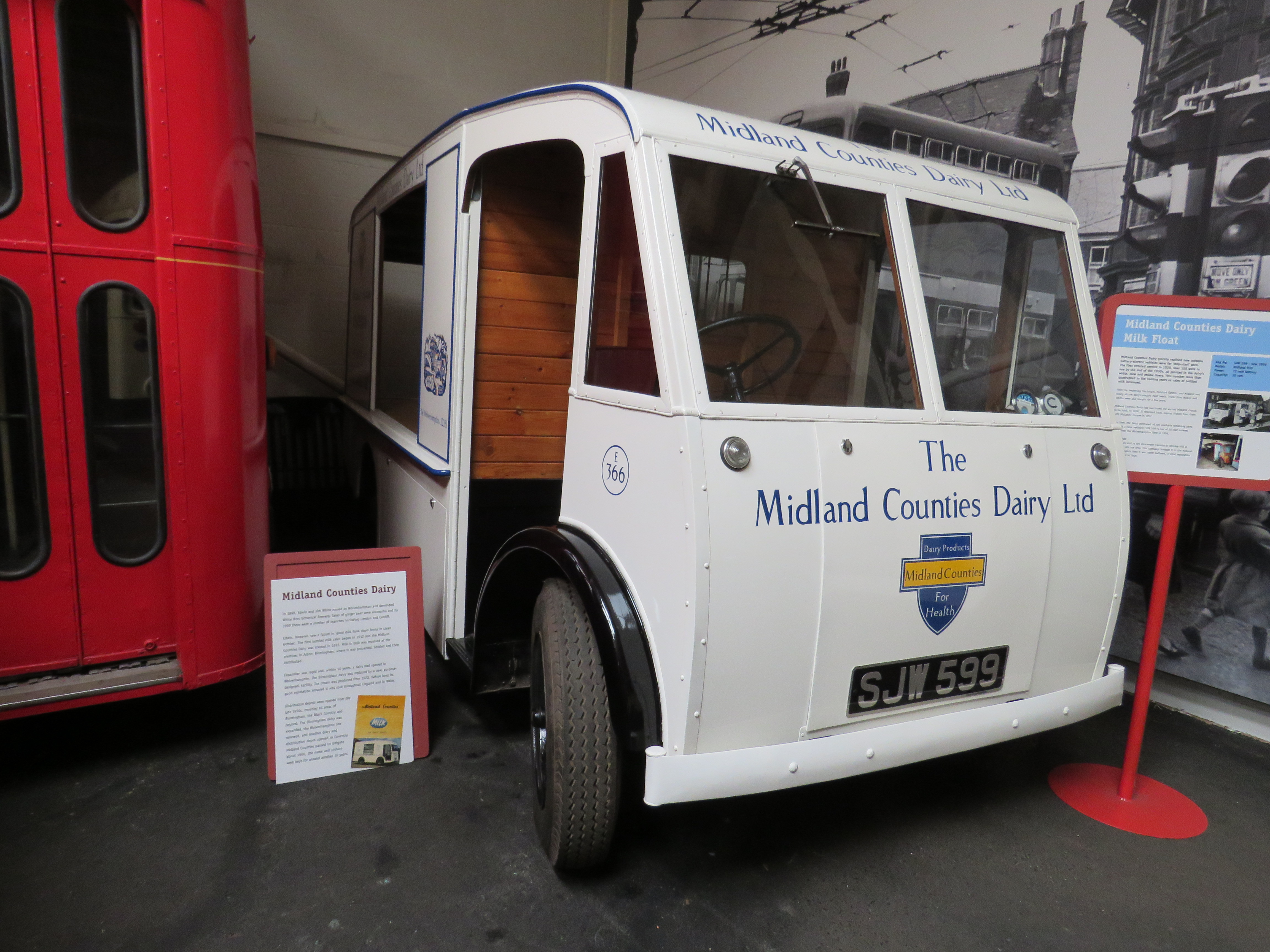 A Midland Electric Vehicles B30 milk float, built in 1956, registration number SJW 599, and operated by Midland Counties Dairy, Wolverhampton, England. It is preserved at the Transport Museum, Wythall.